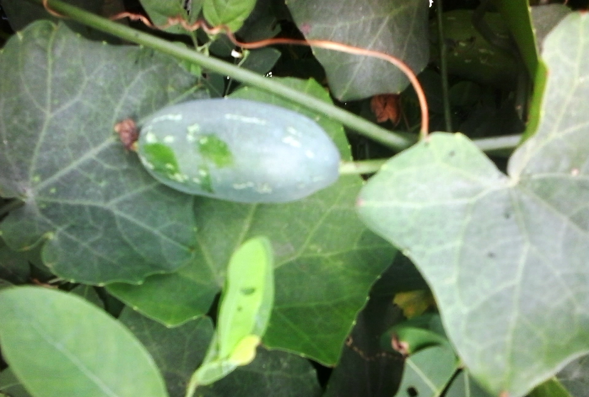 Telakochu (green)